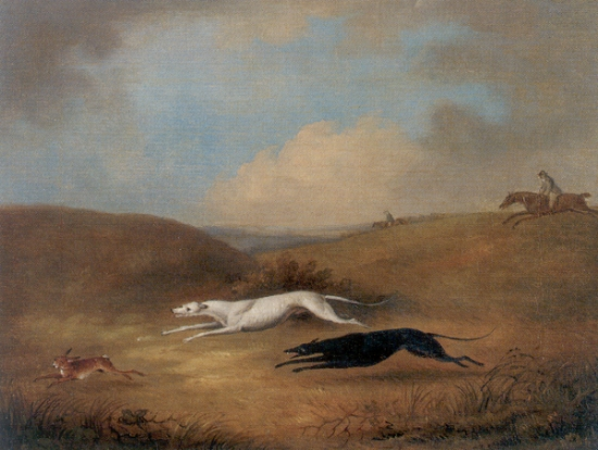 Dean Wolstenholme painting, Greyhounds coursing a hare